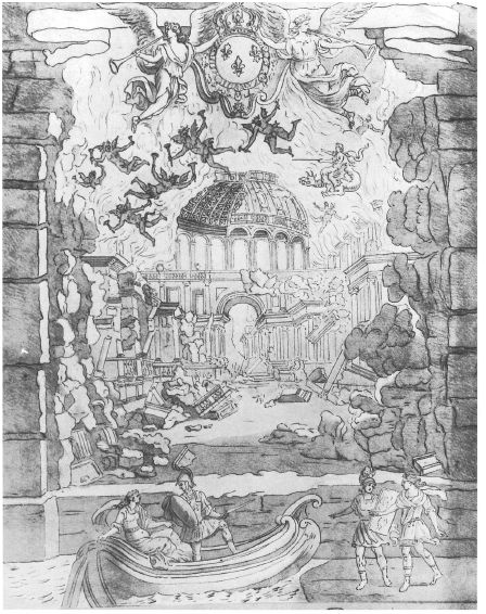 Design of Jean Bérain of Lully's Armide